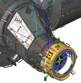 None.